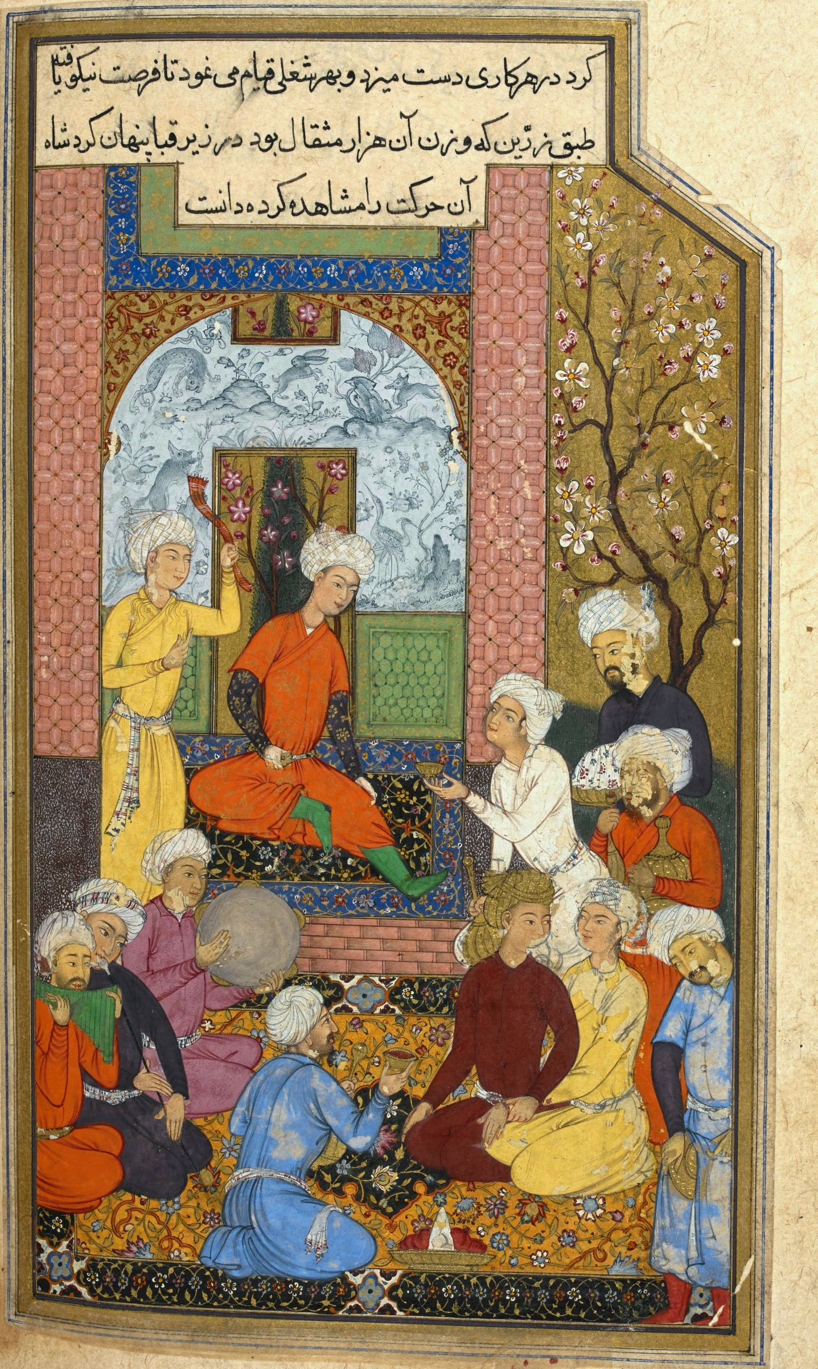 Aqa Riza. The Feast of the King of Yemen. Signed Aqa Riza. Anwar-i Suhaili, dated 1604-1610. British Library, London.